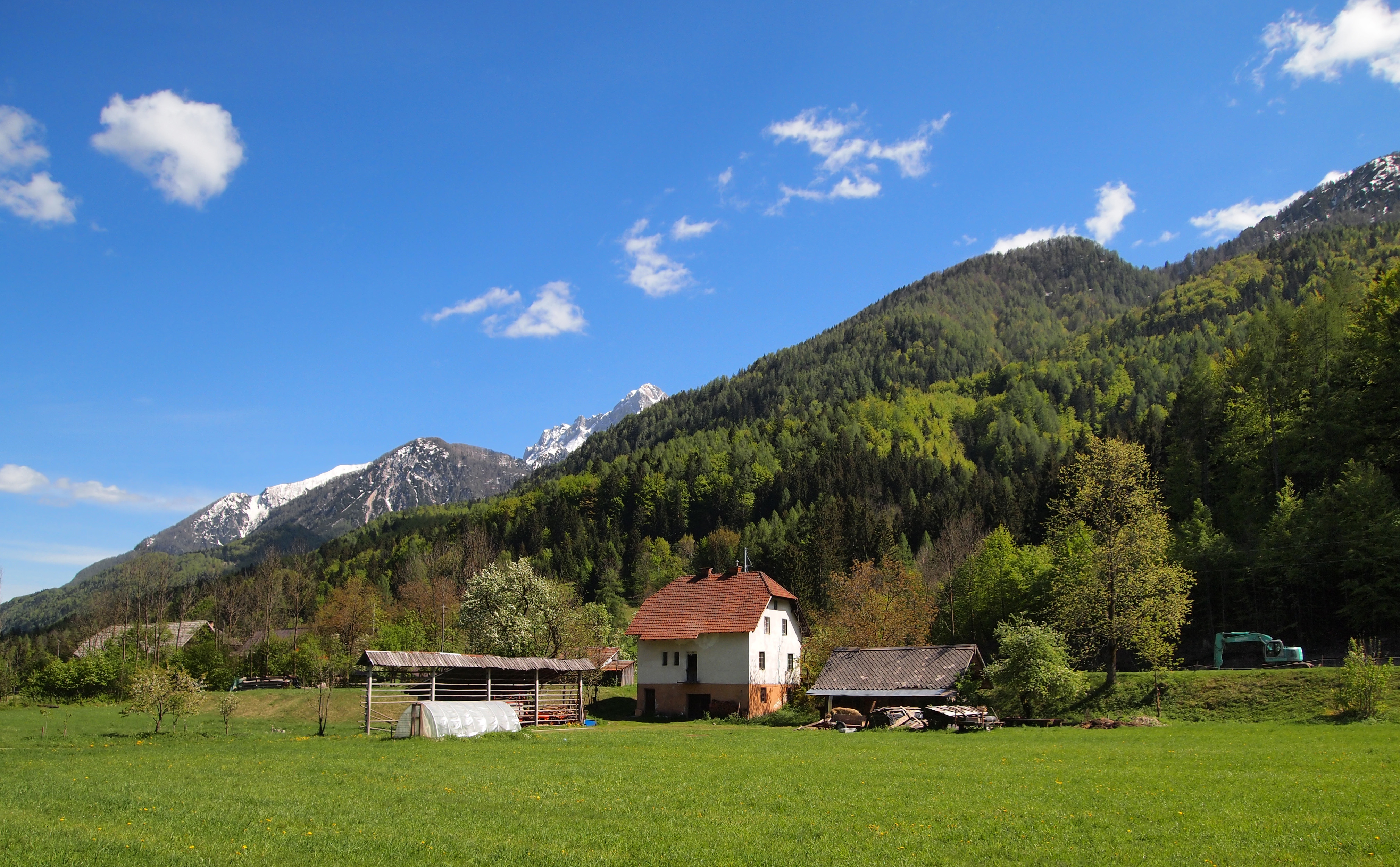 House in Log settlement near Kranjska Gora town, Slovenia. This photograph was taken with a Olympus E-PL1.